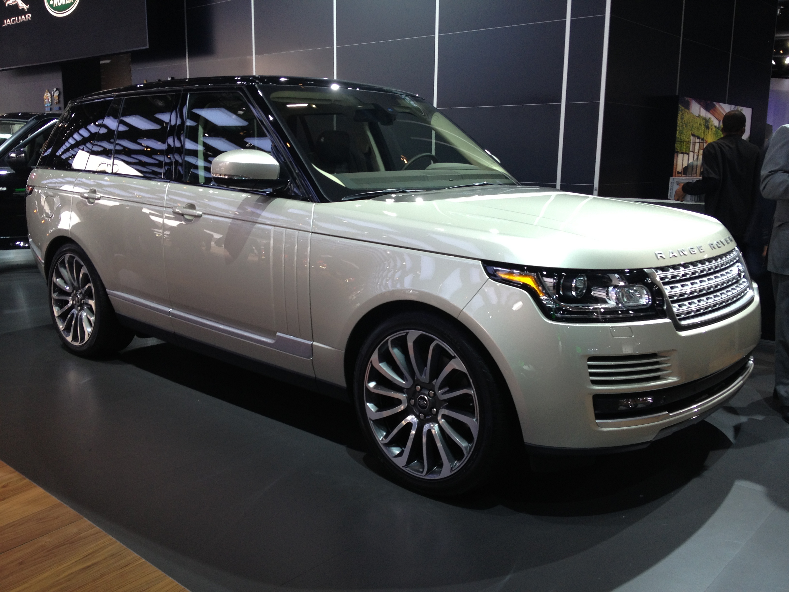 2013 North American International Auto Show Detroit, Michigan